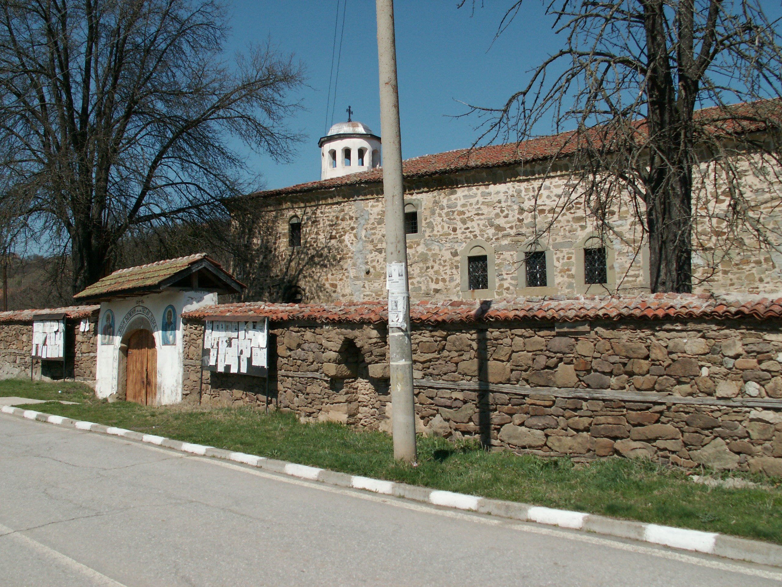 Church in village Prekolnica, Bulgaria.